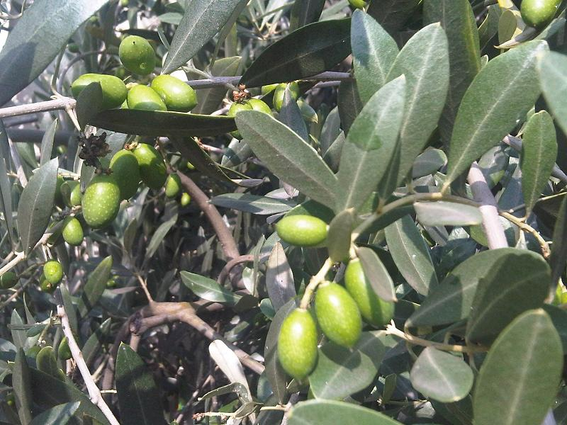 The leaves and fruits of the Olive (Olea europaea) in Botany Bay, England.